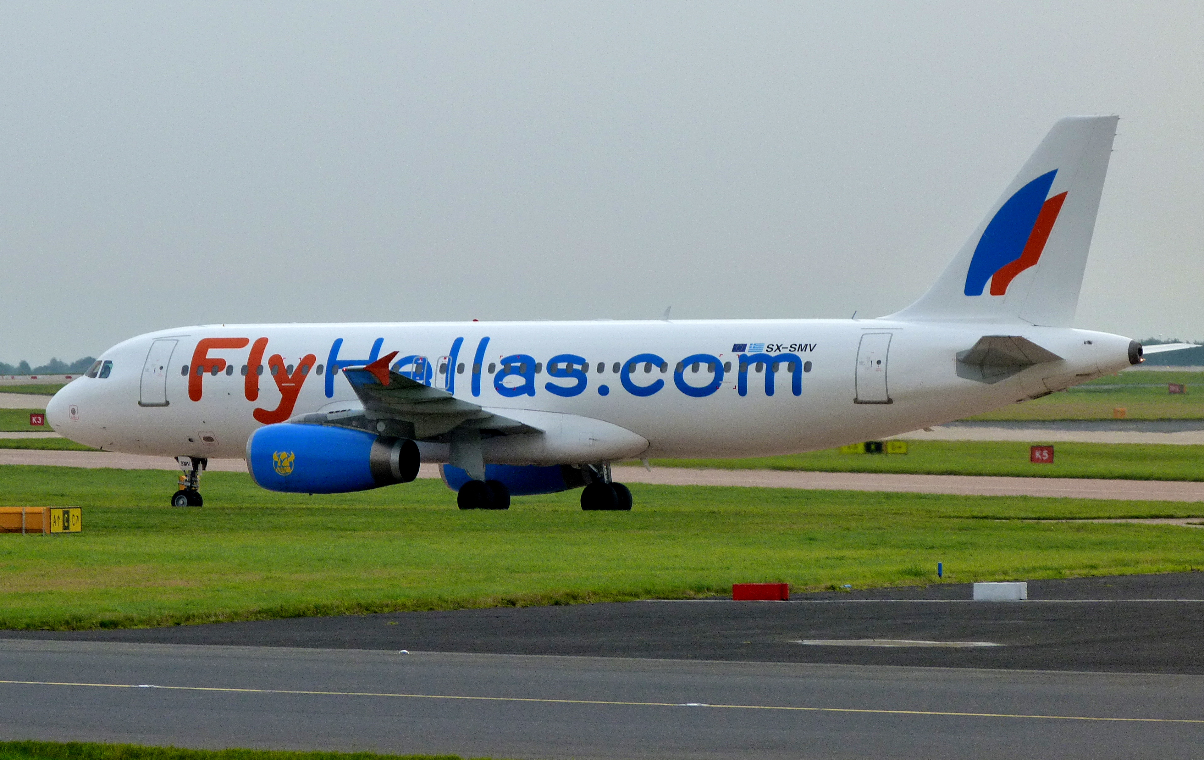 SX-SMV Airbus A320-231 Fly Hellas